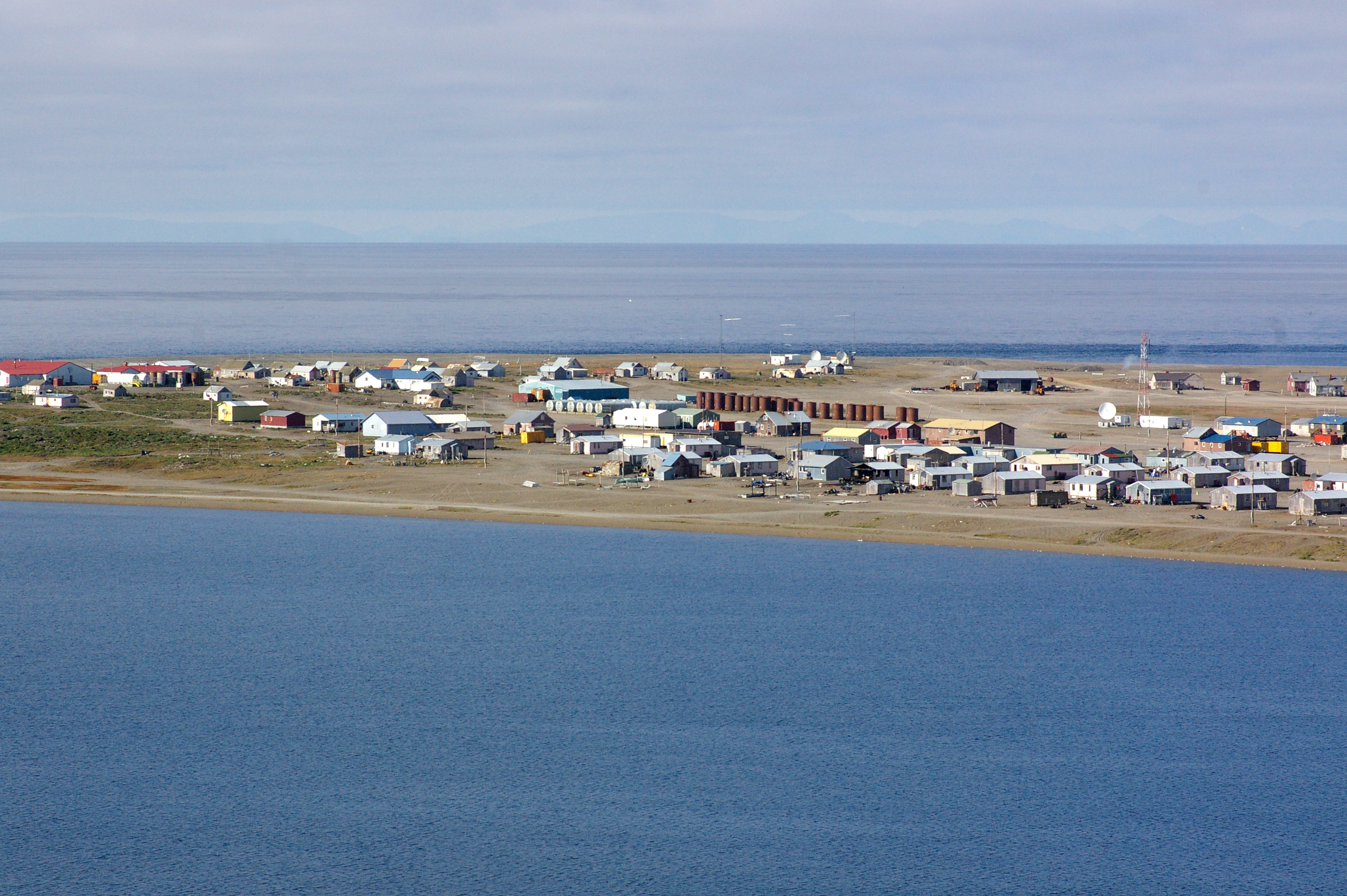 GAMBELL, AK - WINGS TOUR 8/29 - 9/8/2008 and after